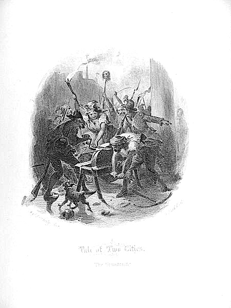 A Tale of Two Cities, The Grindstone